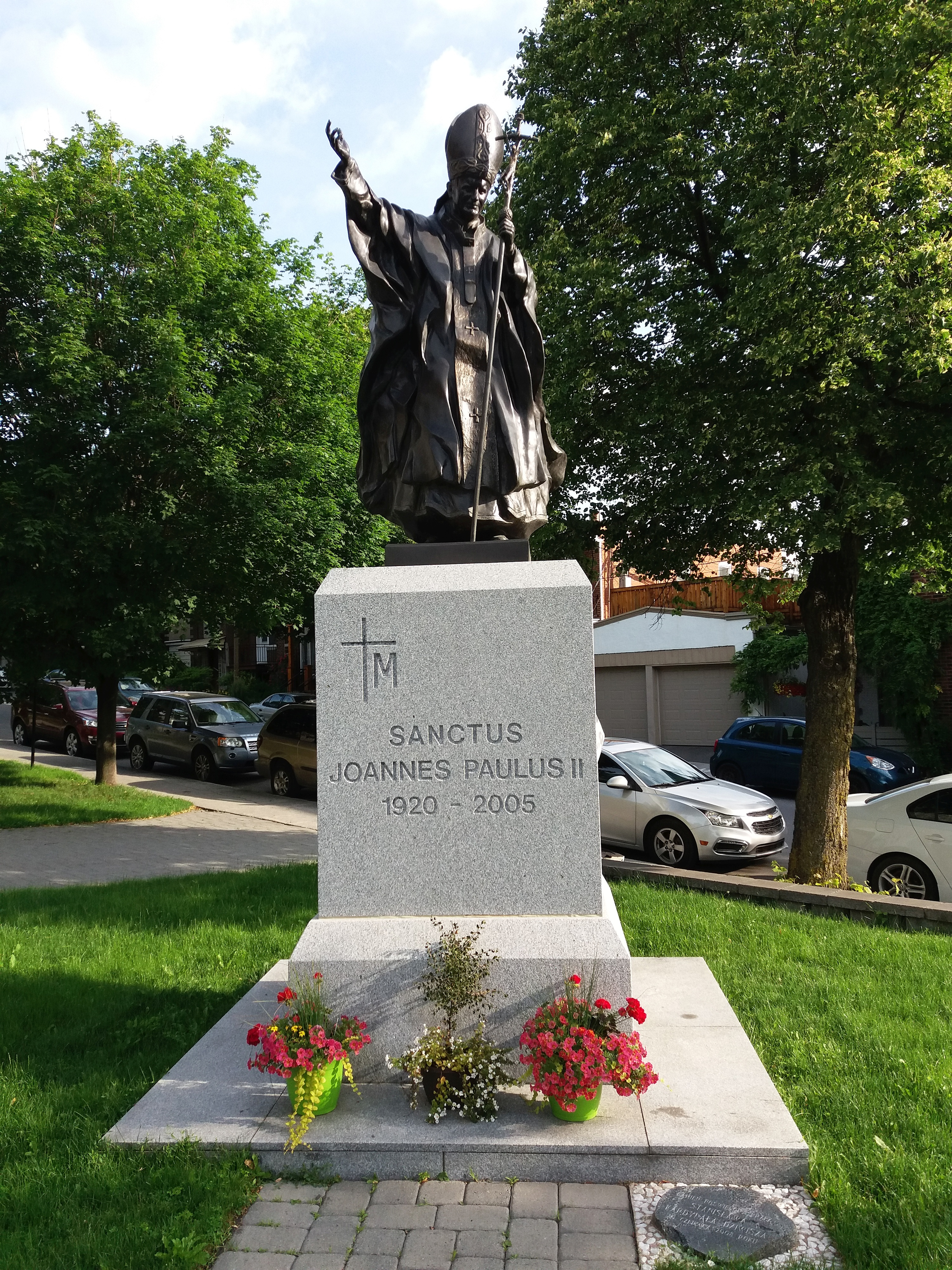 Our Lady of Czestochowa parish church in Montreal (Que), Canada